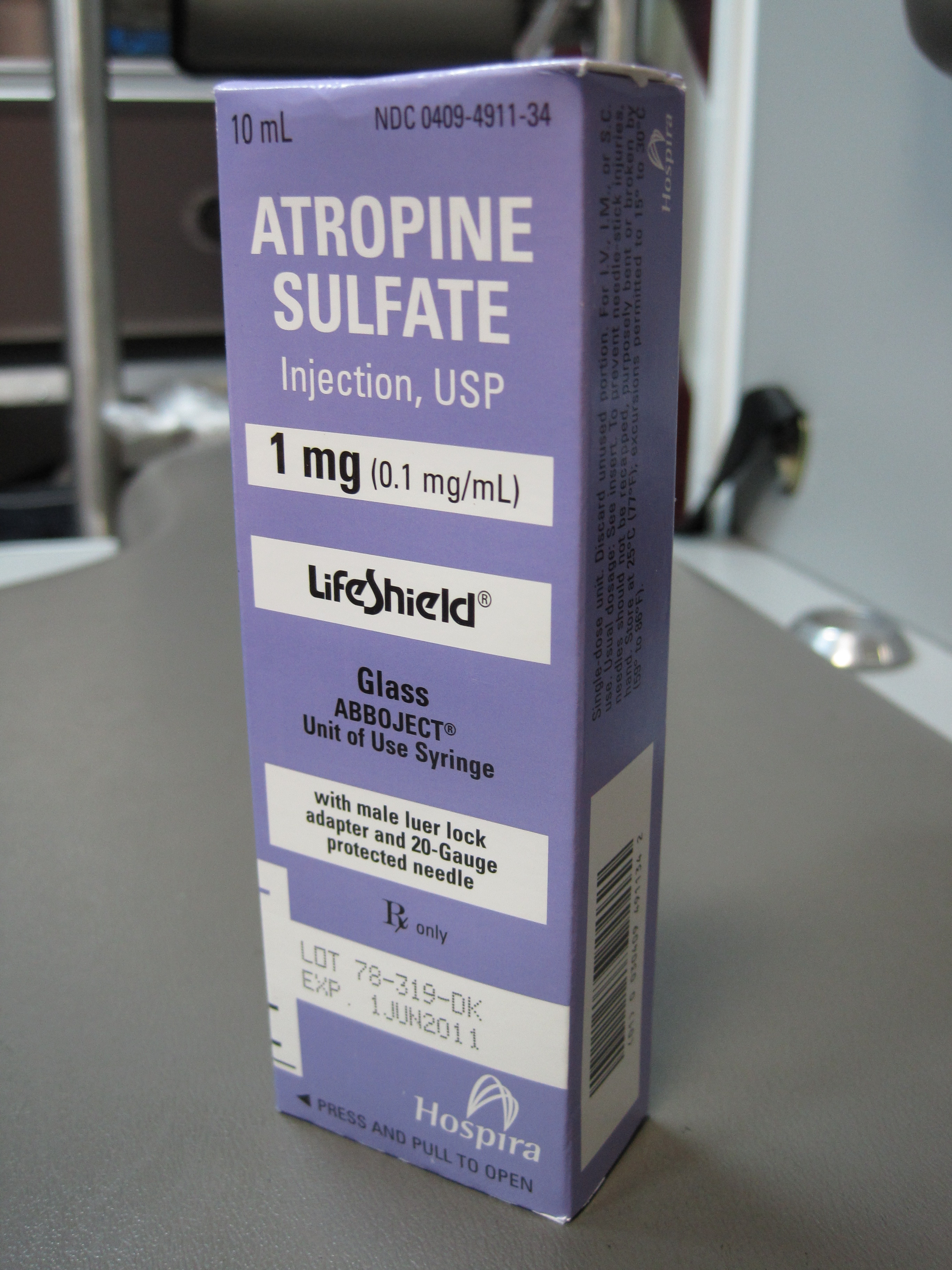 Atropine Sulfate preparation, pre-filled BristoJet package for IV administration.